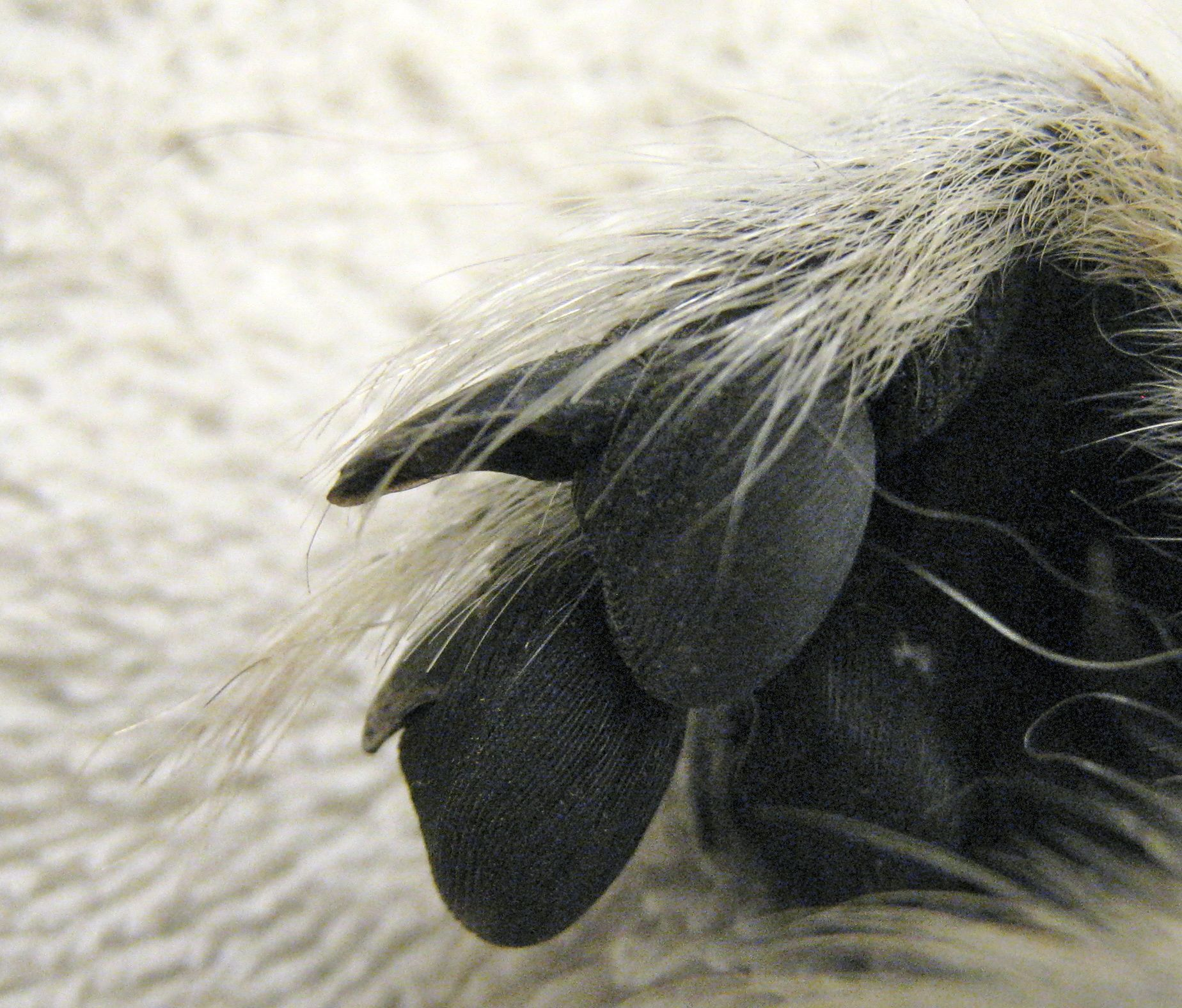 Toilet claw on the second toe of a Lemur catta, contrasted with the nail on third toe; taken during a routine physical examination